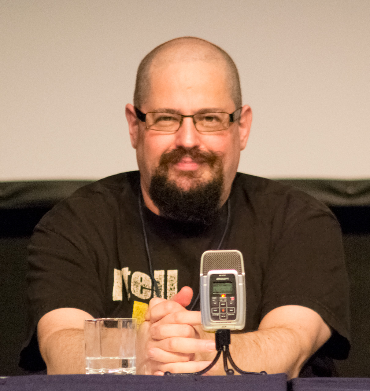 British science fiction author Charles Stross in March 2013 at DortCon Dortmund, Germany